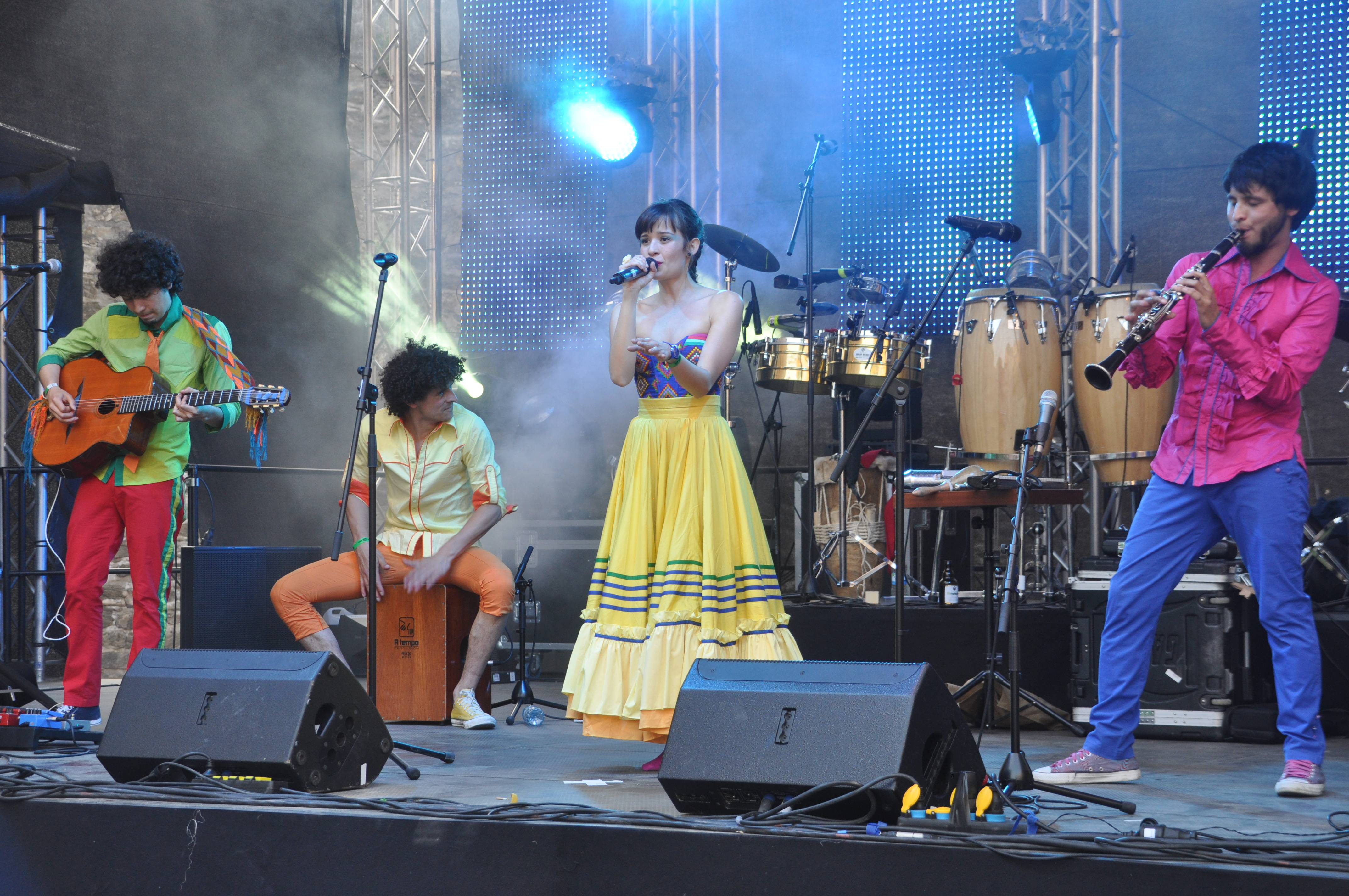 Monsieur Periné (Columbia), appearence at the 11th world music festival "Horizonte" 2013 at the fortress Ehrenbreitstein, Koblenz, Germany